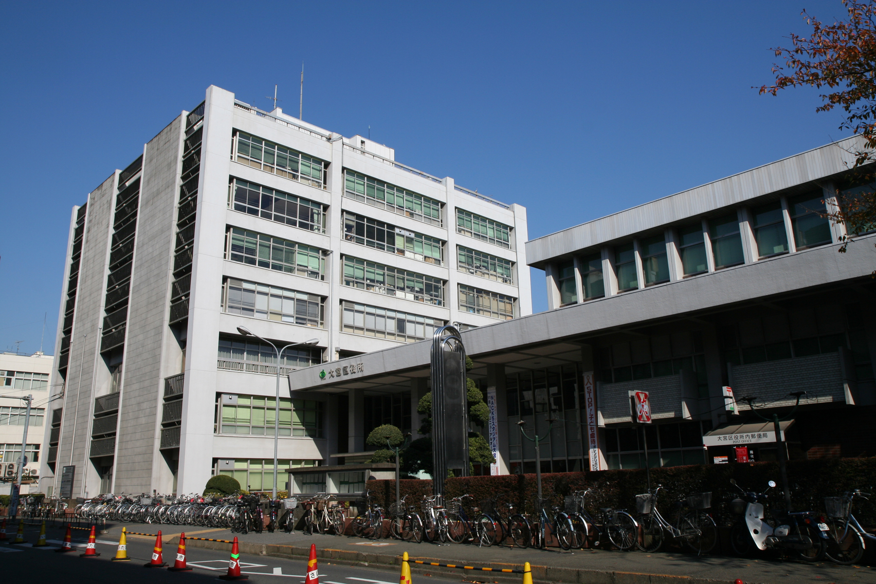 Japanese Omiya ward office in Saitama, Saitama.